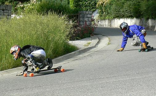 Longboard Downhill by KGB Team (Karibou Group Boarders) at Annecy France